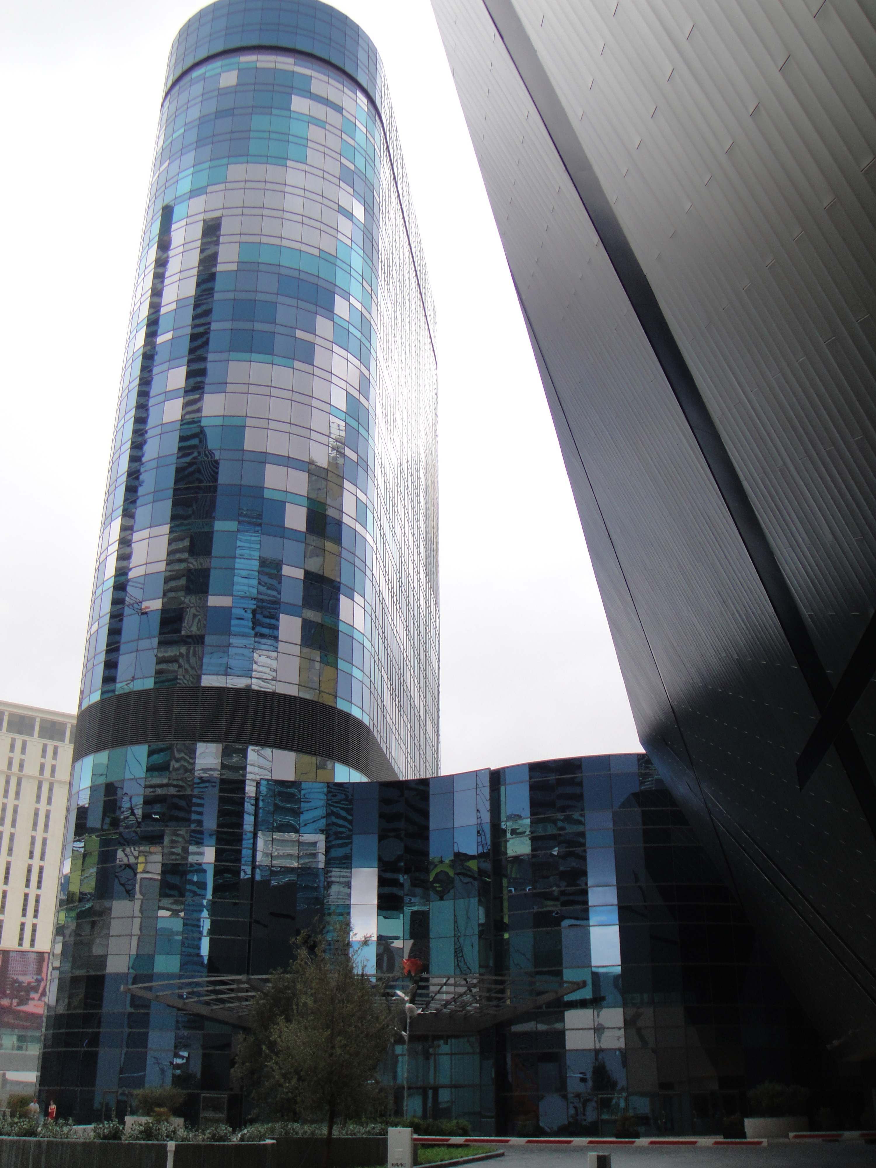 Photo of the west side of the Harmon Hotel in Las Vegas, Nevada